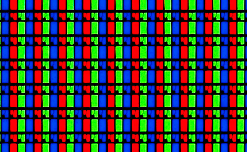 Pixels on LCD screen